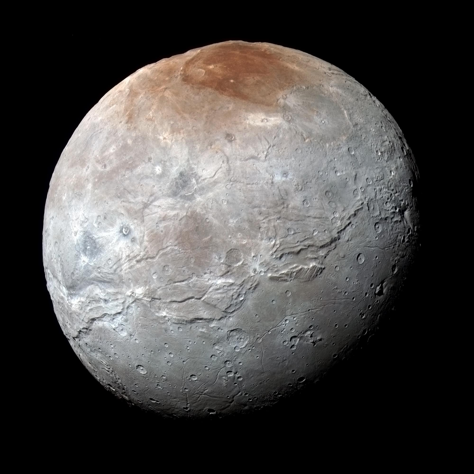 NASA's New Horizons captured this high-resolution enhanced color view of Charon just before closest approach on July 14, 2015. The image combines blue, red and infrared images taken by the spacecraft’s Ralph/Multispectral Visual Imaging Camera (MVIC); the colors are processed to best highlight the variation of surface properties across Charon. Charon’s color palette is not as diverse as Pluto’s; most striking is the reddish north (top) polar region, informally named Mordor Macula. Charon is 754 miles (1,214 kilometers) across; this image resolves details as small as 1.8 miles (2.9 kilometers).